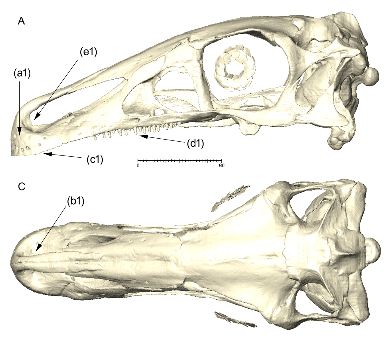 Figure 1: Comparison between the skull of the therizinosaurid Erlikosaurus andrewsi (MPC D-100/111: A and C) and the paravian Halszkaraptor escuilliei (MPC D-102/109: B and D), in left lateral (A and B) and dorsal (C and D) views. Key differences in snout morphology: prenarial part of premaxilla taller than long (a1) or longer than tall (a2); platyrostral condition produced by perinarial widening (b1) or prenarial flattening (b2); complete loss of premaxillary dentition (c1) or supranumerary premaxillary dentition (c2); maxillary dentition lacking replacement waves (d1), or bearing distinct replacement waves (d2); narial fossa widely overlapping premaxillary oral margin (e1) or narial fossa not overlapping premaxillary oral margin. Scale bars in mm. (A) and (C) Provided by Stephan Lautenschlager (used with permission).